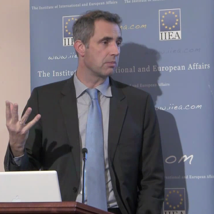 Prof. Smets discussed the European Union's recently agreed Single Supervisory Mechanism (SSM), which is set to take over supervision of Eurozone banks in November 2014. The ECB's announcement that it will conduct stress testing of banks before assuming supervisory duties is of enormous significance to the Irish banking sector, which, in accordance with its agreement with the Troika, will see five major banks subjected to rigorous review in the coming months. Prof. Smets provided an overview of the SSM and discussed the practical considerations of pan-European supervision.